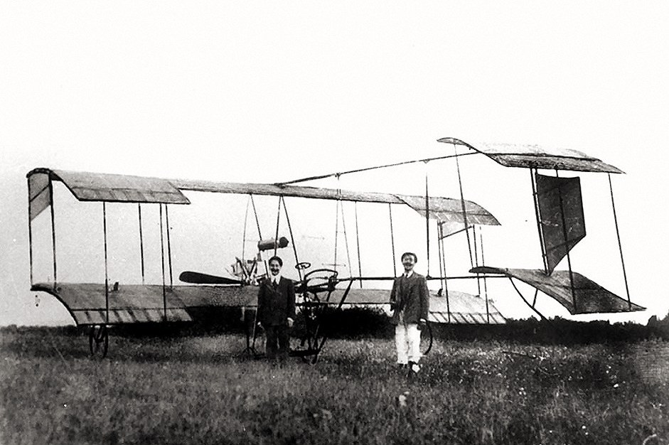 Caproni Ca.4 25 hp.